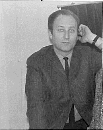 Acteur Henk Molenberg, 1965